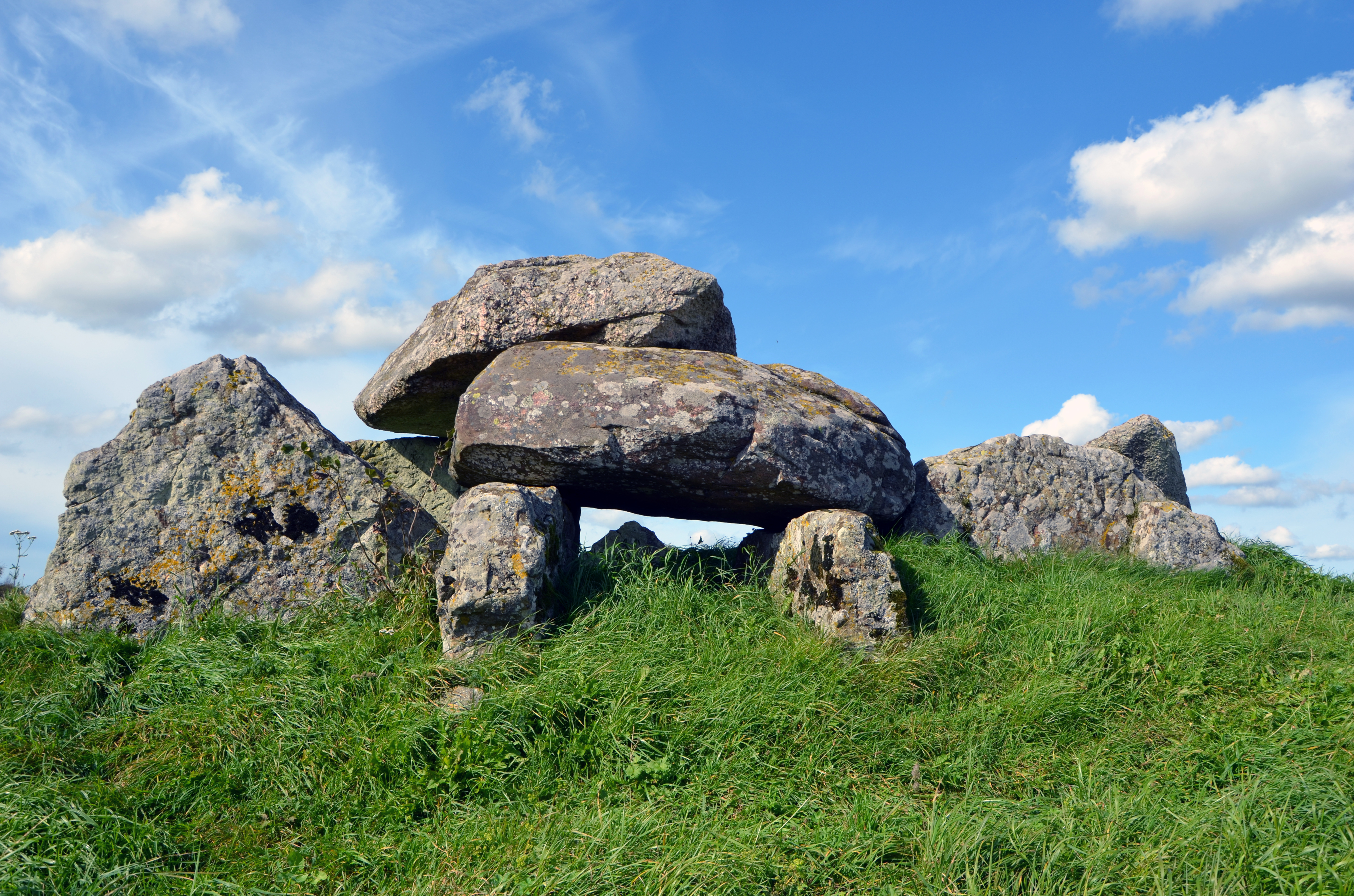 The Neolithic passage grave in Luttra (RAÄ number Luttra 15:1) in Falköping municipality, Västergötland, Sweden.